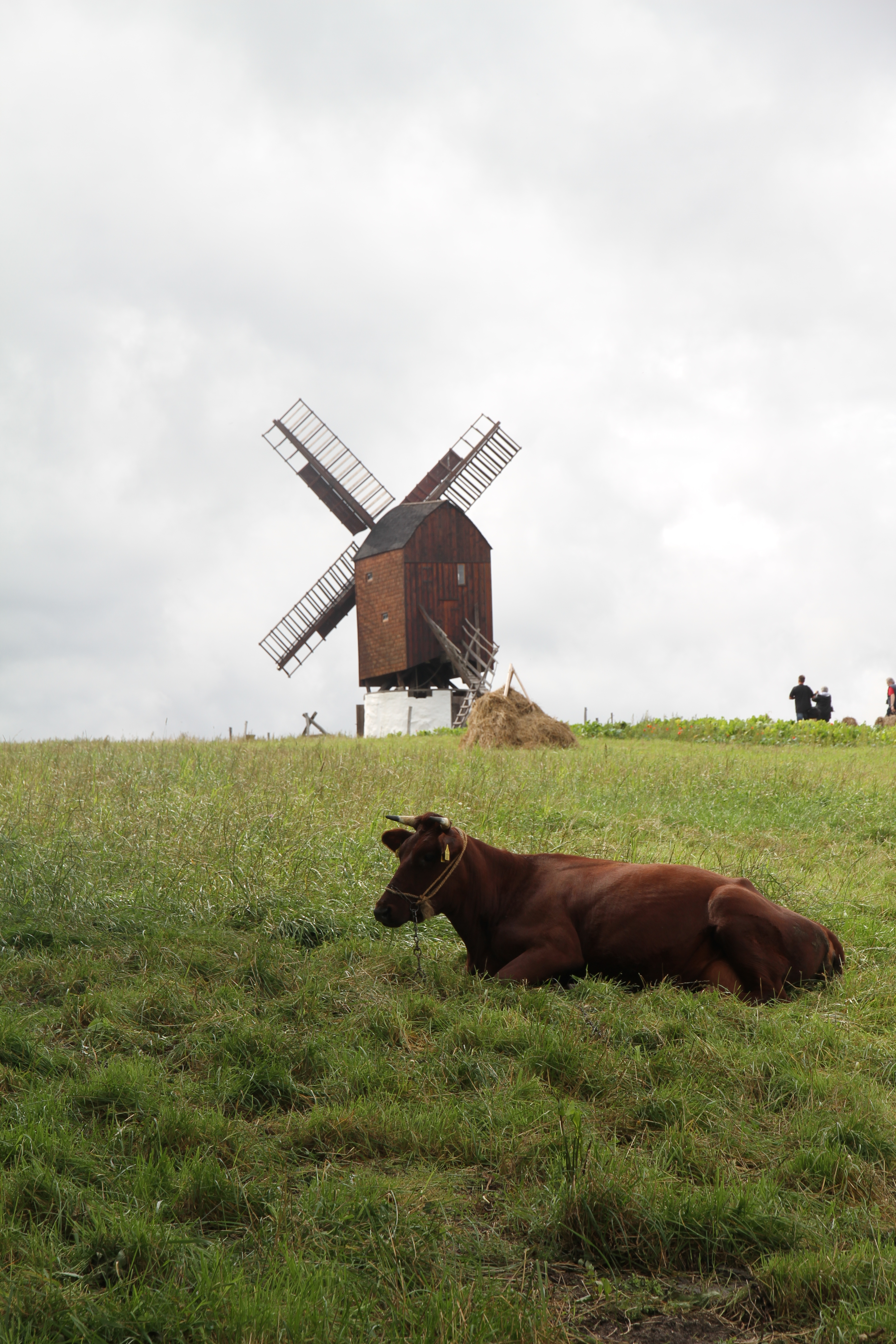 Tejn Post Mill from 1830, Gudhjem, Bornholm, Denmark, with a cow lying in the foreground.